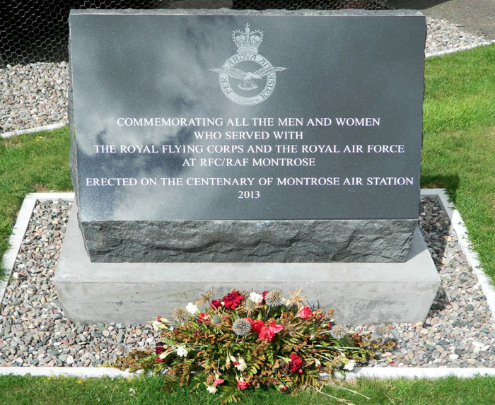 Memorial at Montrose Air Station Heritage Centre dedicated to the men and women who served at RFC/RAF Montrose. Unveiled by HRH Earl of Wessex 26th July 2013